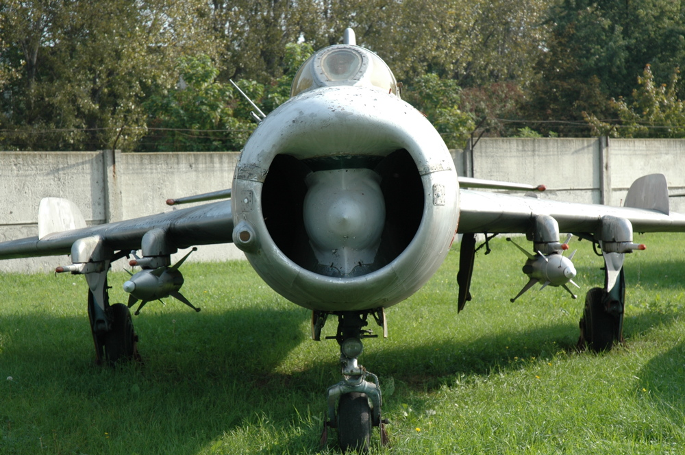 Mikoyan-Guryevich MiG-19PM fighter, front view (Museum of Hungarian Air Force, Szolnok, Hungary)